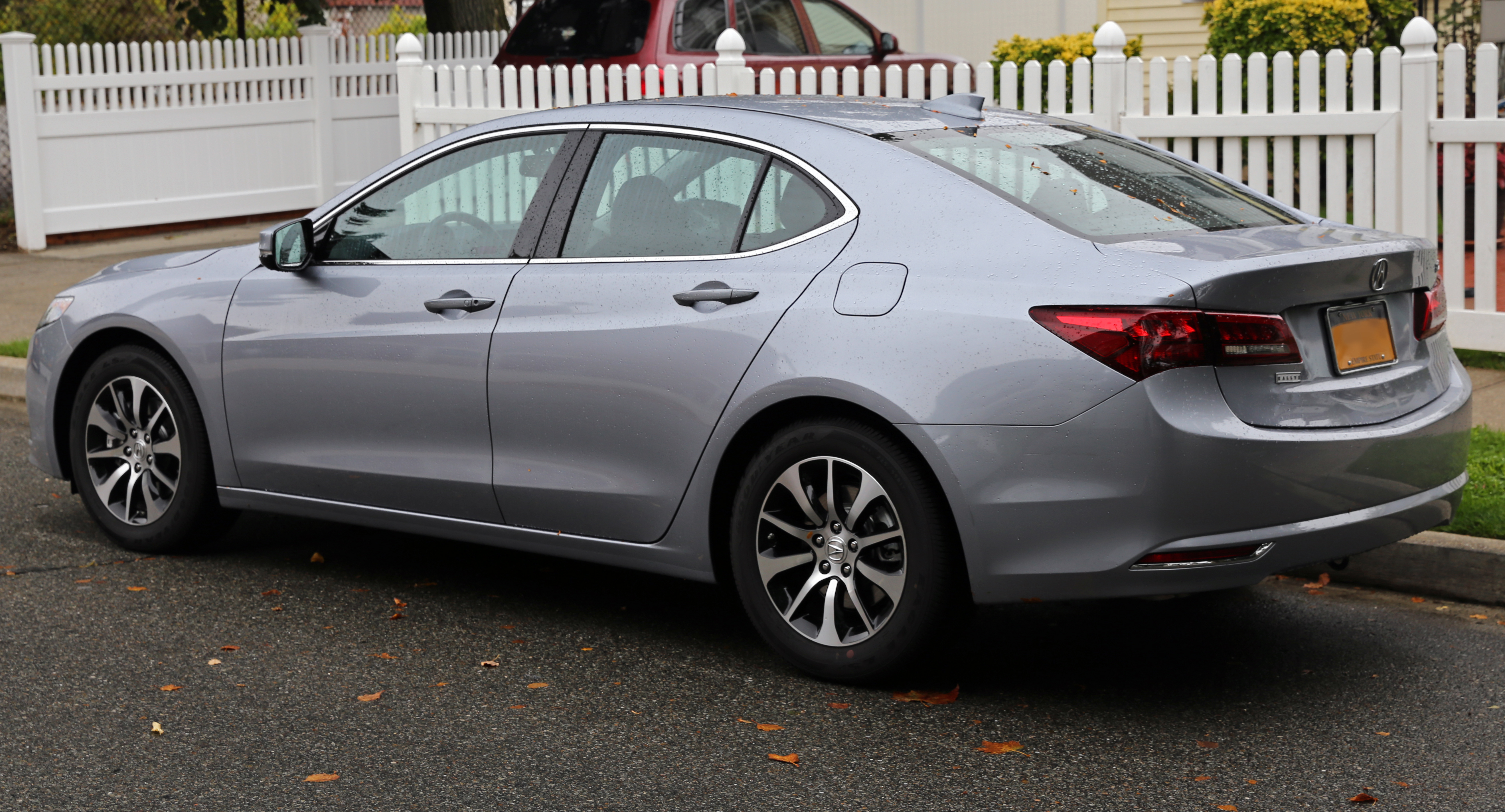 A 2015 Acura TLX, with the 2.4 liter inline-four coupled to an eight-speed dual-clutch transmission (DCT) and front-wheel drive.